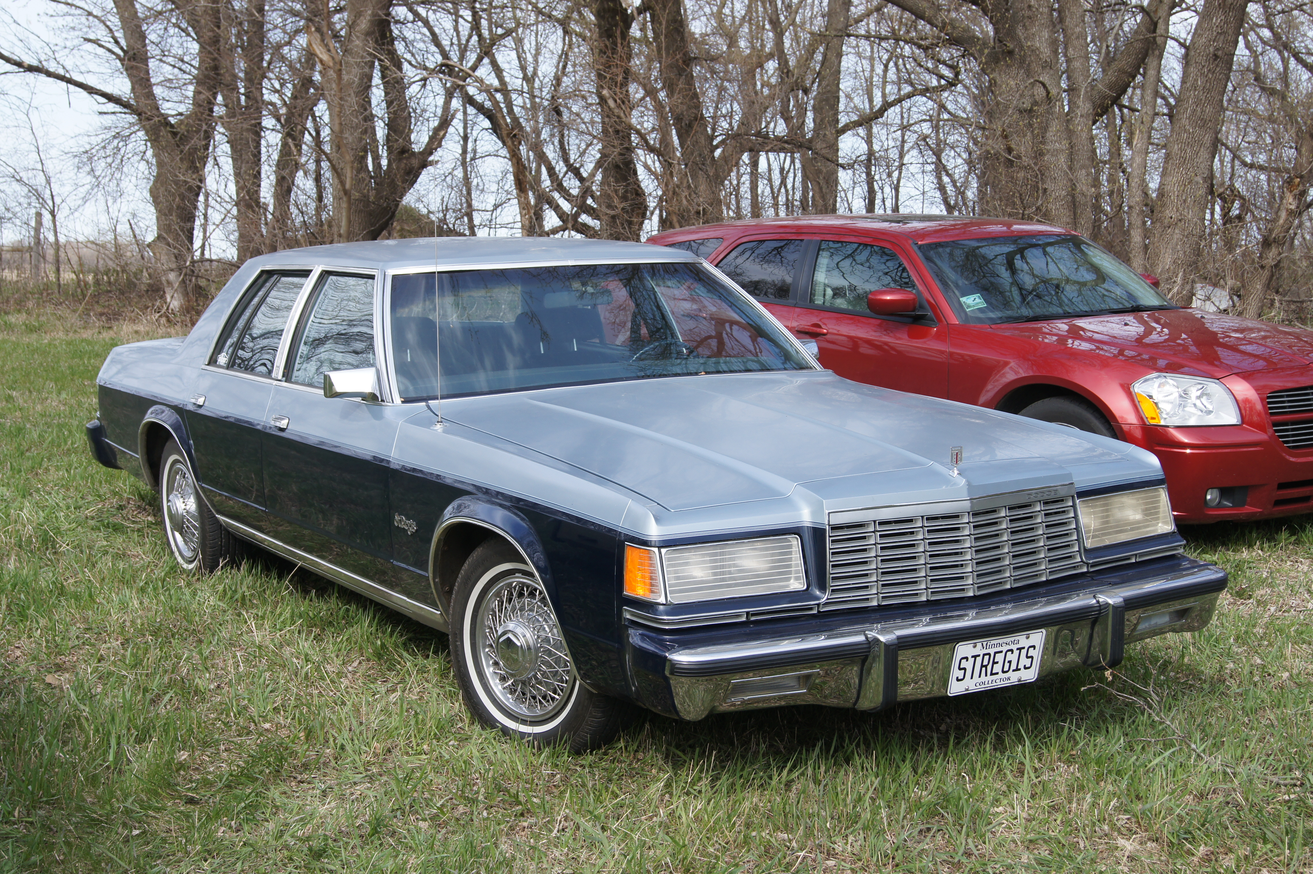 Time to get the cars out of storage. This year I decided that I need to sell a couple of cars. The cars deserve more resources, time and attention then I have to give to all of them. My resolve weakend as I drove each one of them home. Missing from the picture is my 1999 Chrysler Sebring LXi daily driver. Car pictures are cheaper and easier to keep. Check that Collection by clicking this link.